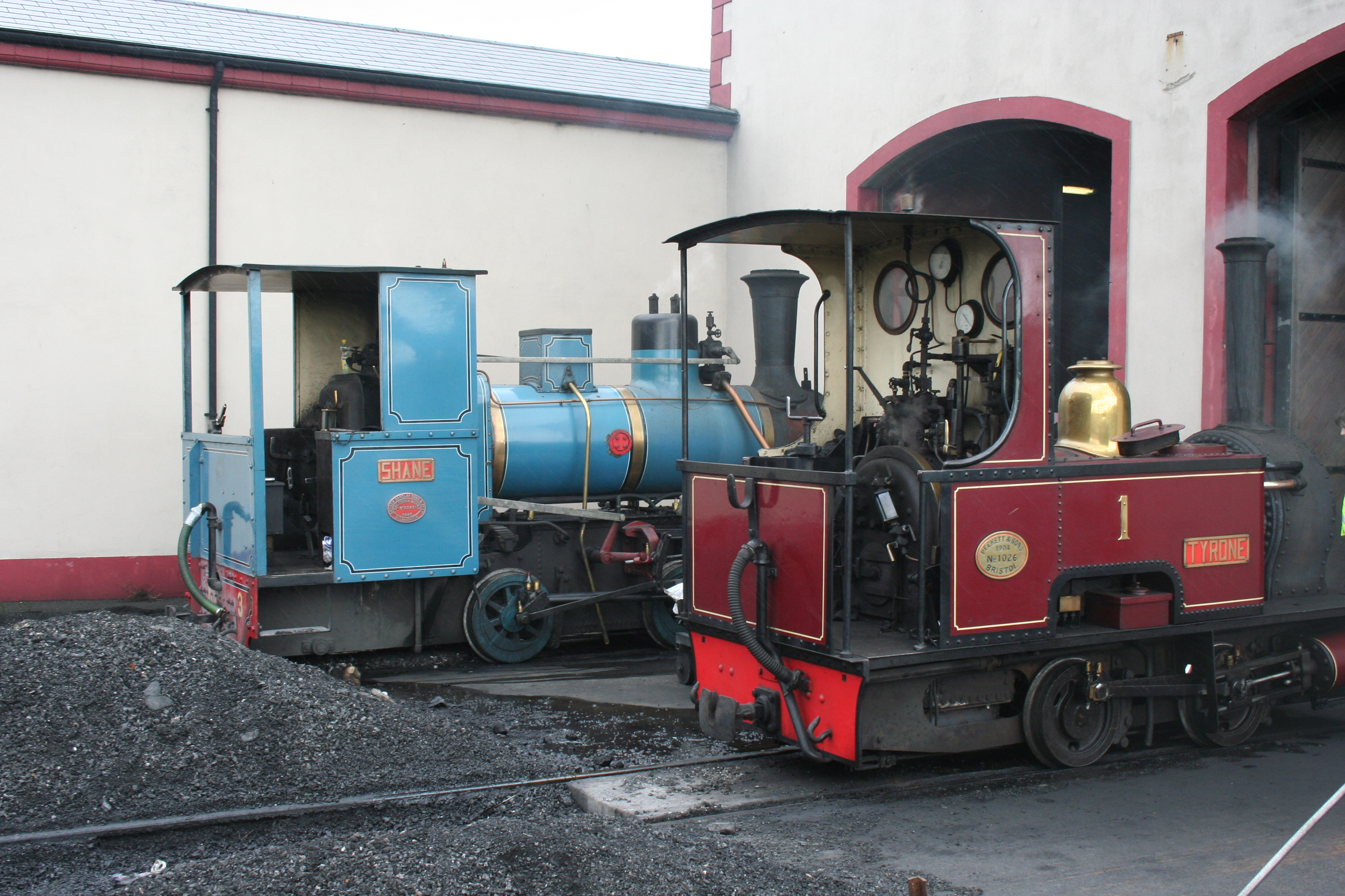 Locomotive engines of the Giant's Causeway & Bushmills railway